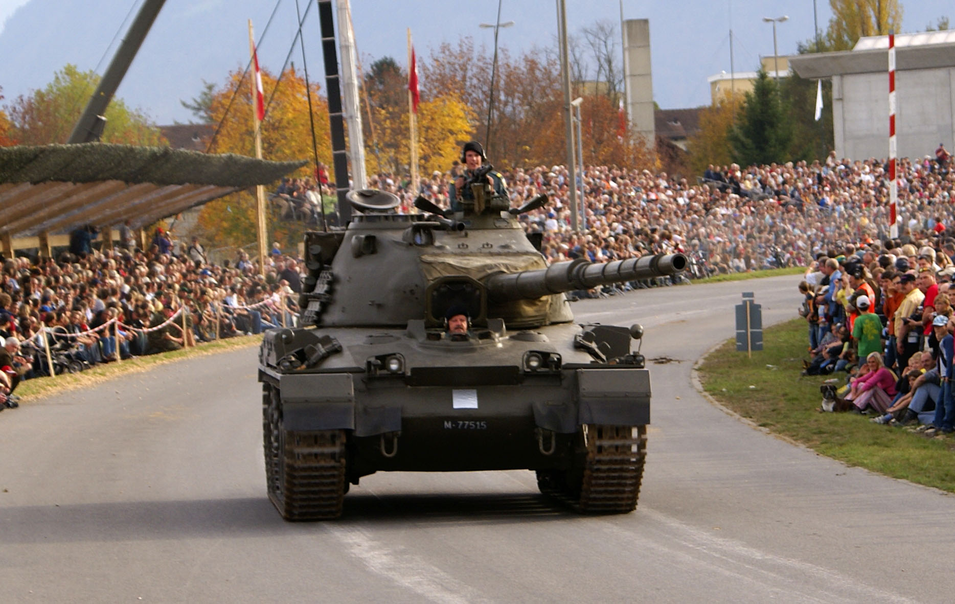 Swiss Army. Main battle tank 61. In use until 1995. Participating in the "Steel Parade" of the 2006 Army Days, Thun.